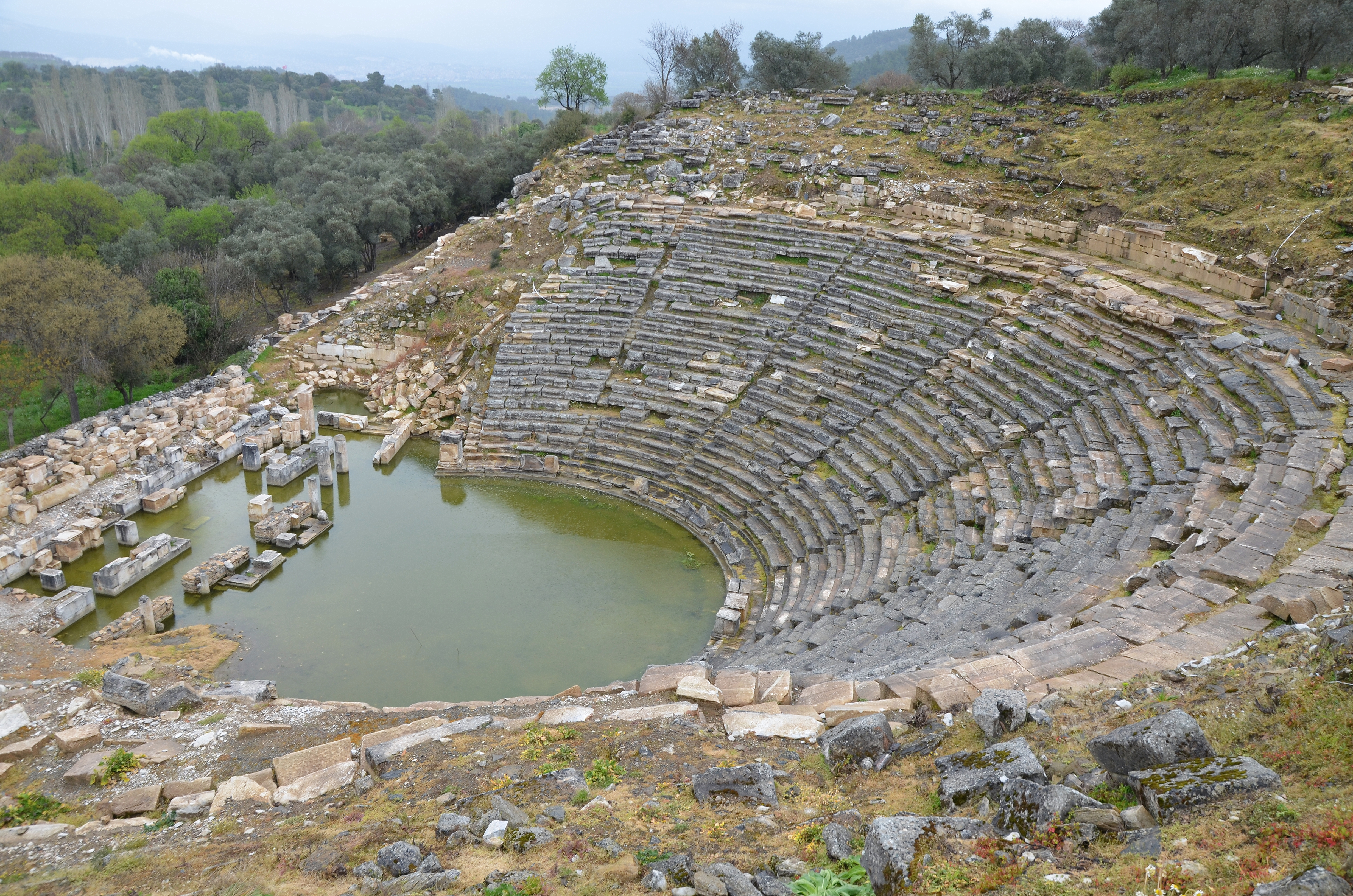 The theatre, erected in the Hellenistic period in the north slope of the south hill, its capacity was approximately 10,000 spectators, Caria, Turkey